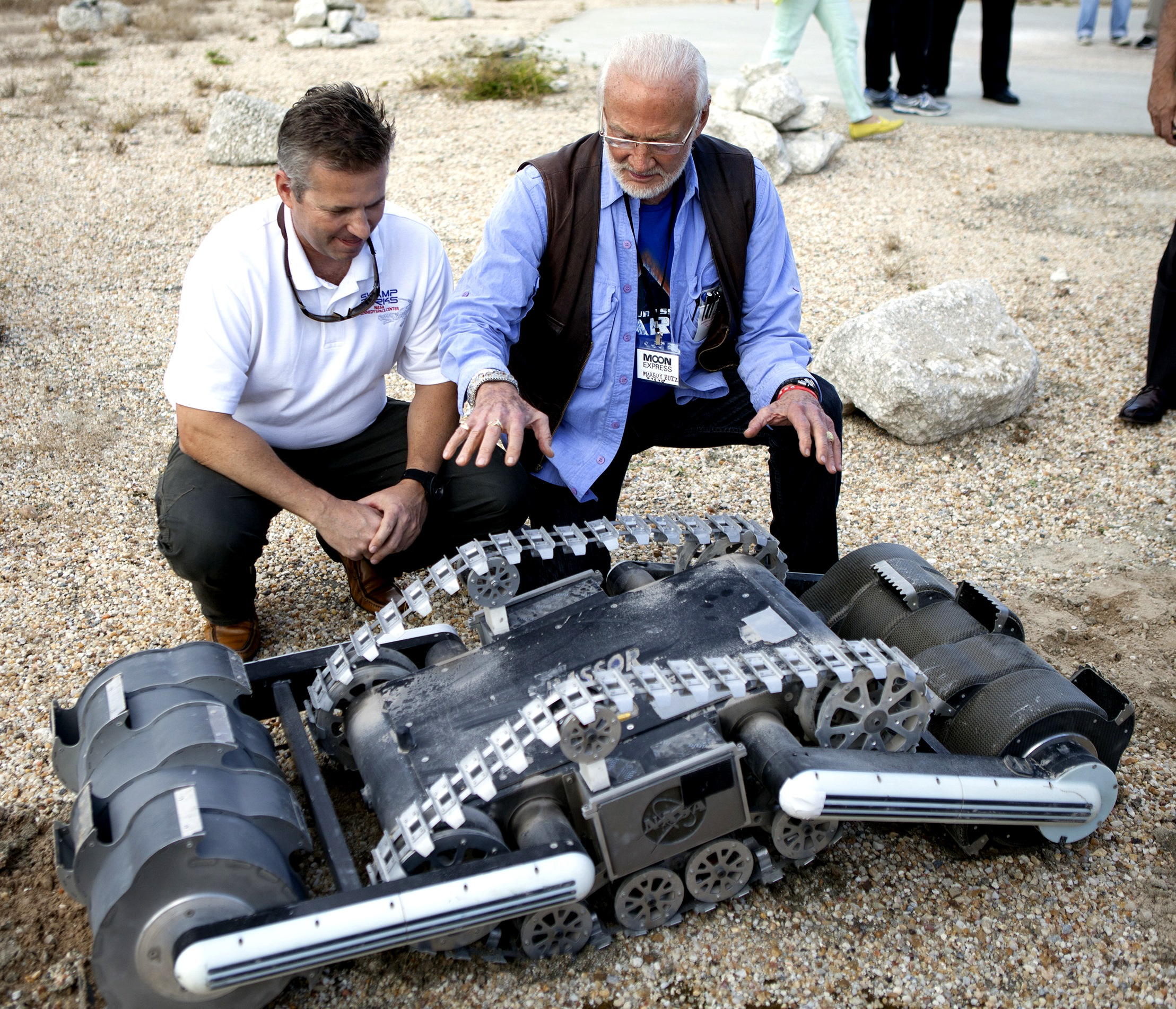 Apollo 11 moonwalker Buzz Aldrin speaking with NASA senior technologist Rob Mueller about the lunar/Martian/asteroid mining robot RASSOR (Regolith Advanced Surface Systems Operations Robot) that was developed at the NASA KSC Swamp Works. Photo taken at the KSC Hazard Field for lunar lander tests at the north end of the KSC Shuttle Landing Facility, November 3, 2014. NASA photographer: John B. (Ben) Smegelsky.